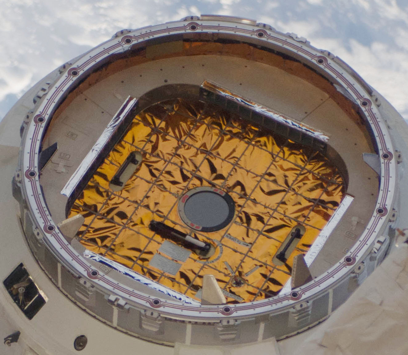 ISS031-E-071199 (25 May 2012) --- With clouds over Earth forming a backdrop, the SpaceX Dragon commercial cargo craft is photographed during grappling operations with the Canadarm2 robotic arm at the International Space Station. Expedition 31 Flight Engineers Don Pettit and Andre Kuipers grappled Dragon at 9:56 a.m. (EDT) and used the robotic arm to berth Dragon to the Earth-facing side of the station's Harmony node at 12:02 p.m. May 25, 2012. Dragon became the first commercially developed space vehicle to be launched to the station to join Russian, European and Japanese resupply craft that service the complex while restoring a U.S. capability to deliver cargo to the orbital laboratory. Dragon is scheduled to spend about a week docked with the station before returning to Earth on May 31 for retrieval.